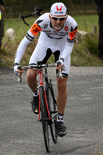 Daniel Fleeman at the 2009 British National Hill-Climb Championship near Stocksbridge which he won.